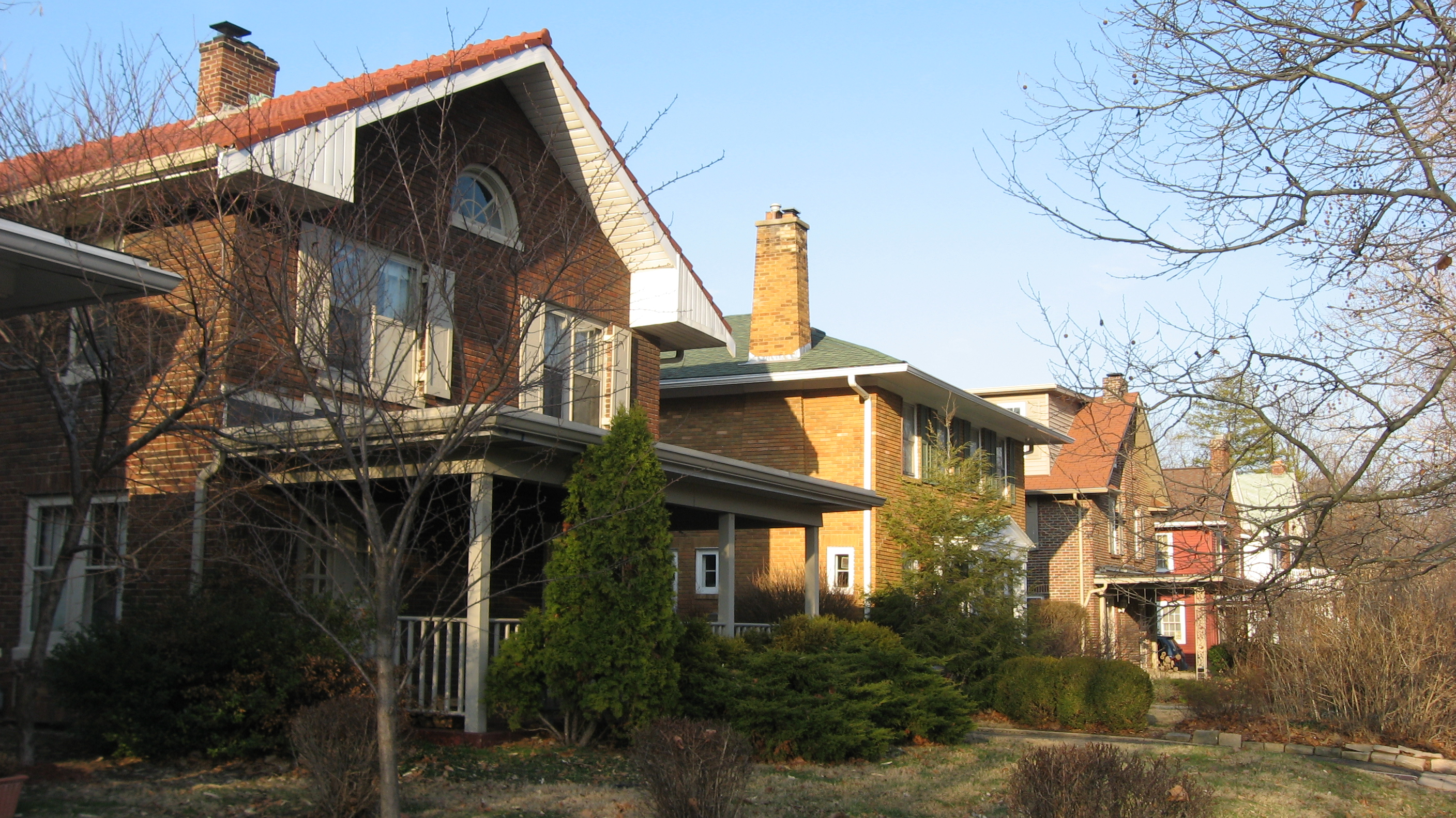 Houses in the 5100 block of E. New York Street in Indianapolis, Indiana, United States. This block is part of the Pleasanton in Irvington Historic District, a historic district that is listed on the National Register of Historic Places.